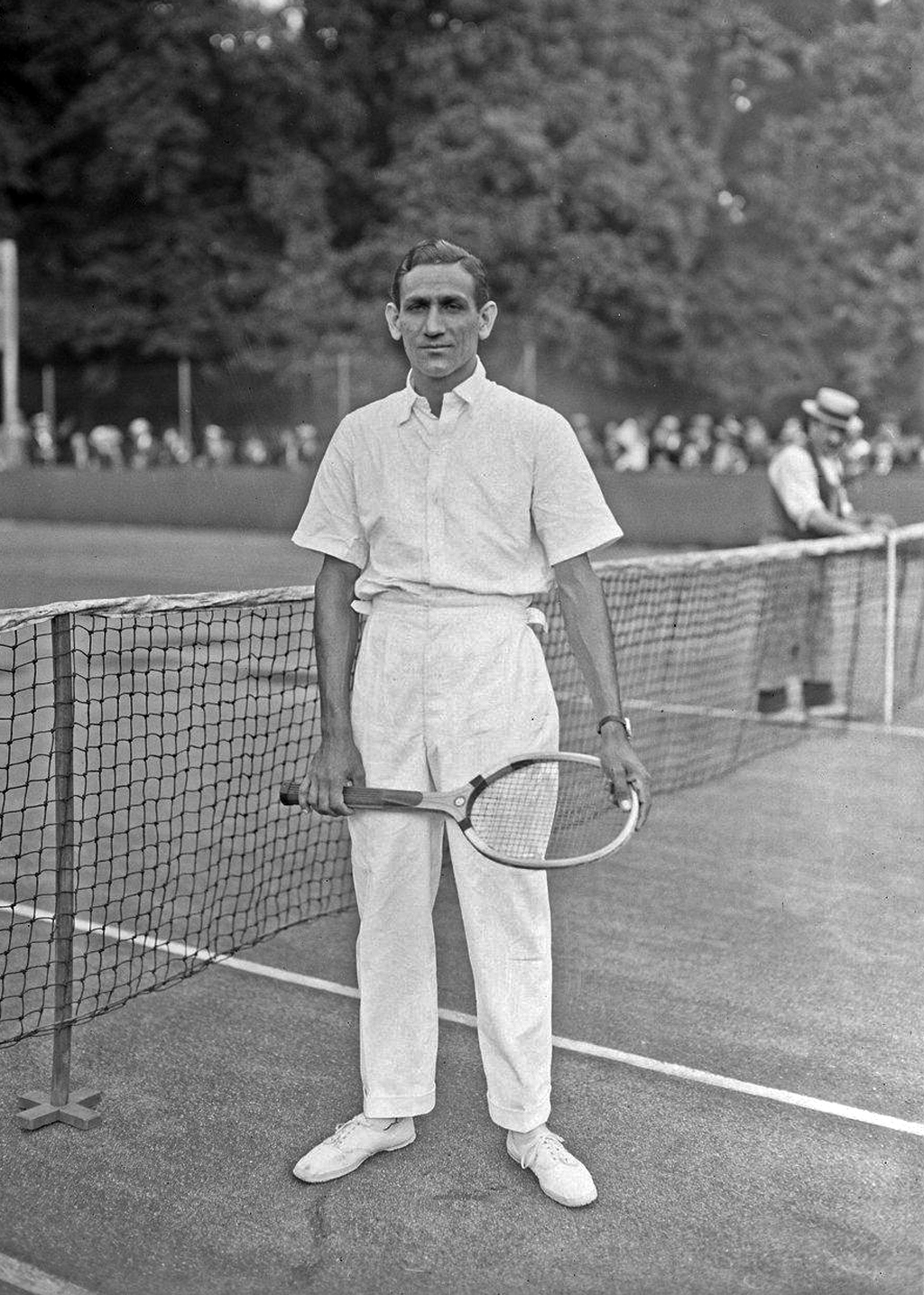 Indian tennis player Mohammed Sleem at a Davis Cup match in Paris.